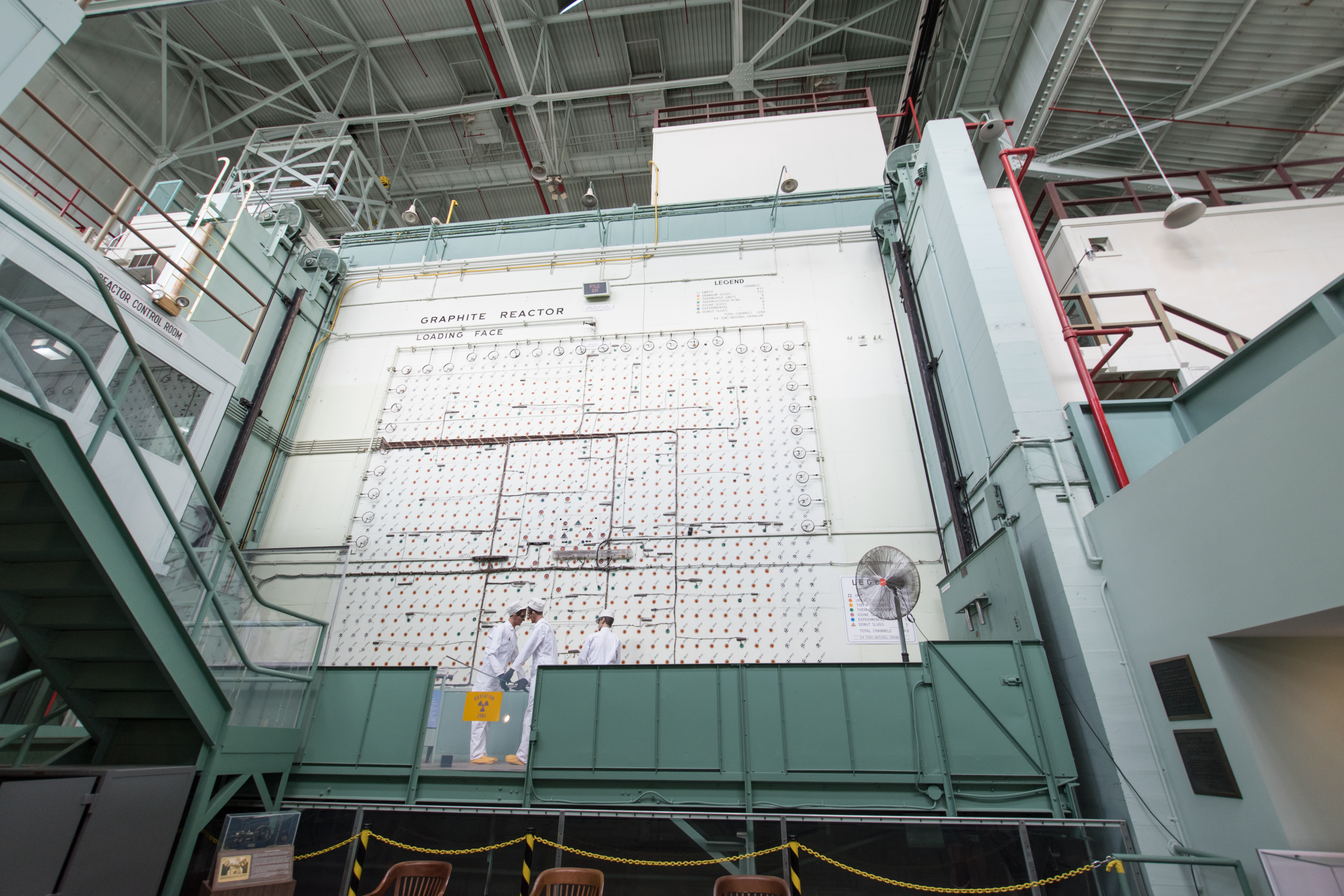 The X-10 Graphite Reactor, taken as part of an AMSE scheduled bus tour on August 7, 2019. We were only permitted taking photographs inside this reactor building, and the sign outside.